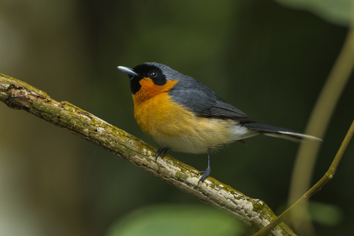 Spectacled Monarch - Kingfisher Park - Queensland_S4E0898